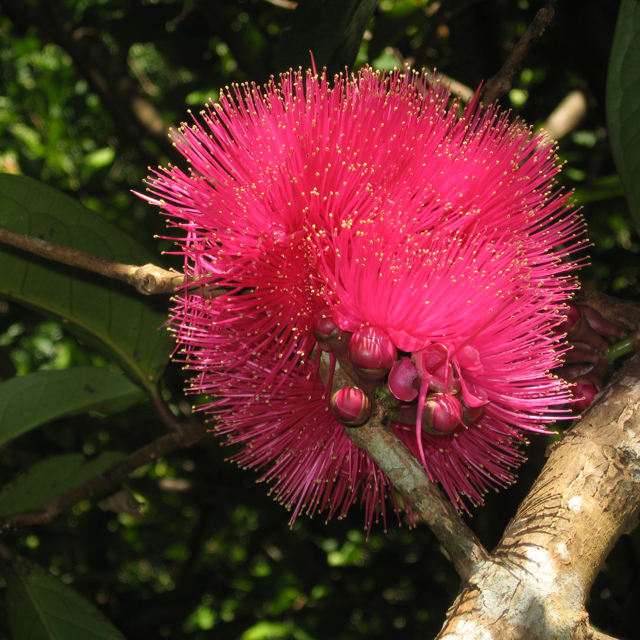 An unidentified guava flower in Mangunharjo, Yogyakarta